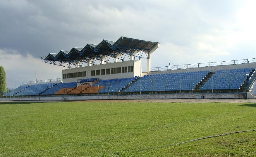 Gyumri City Stadium, the home ground of FC Shirak